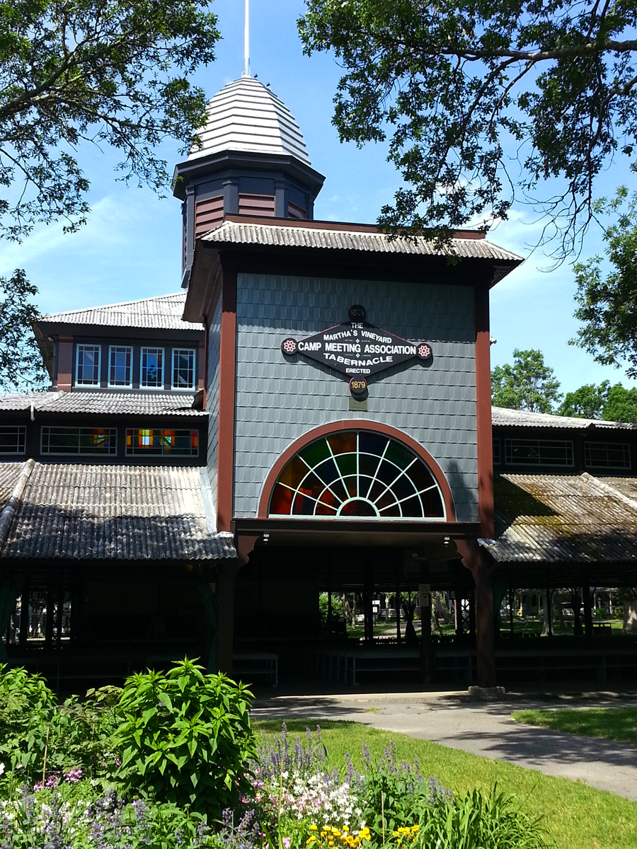 Wesleyan Grove, Marthas Vineyard